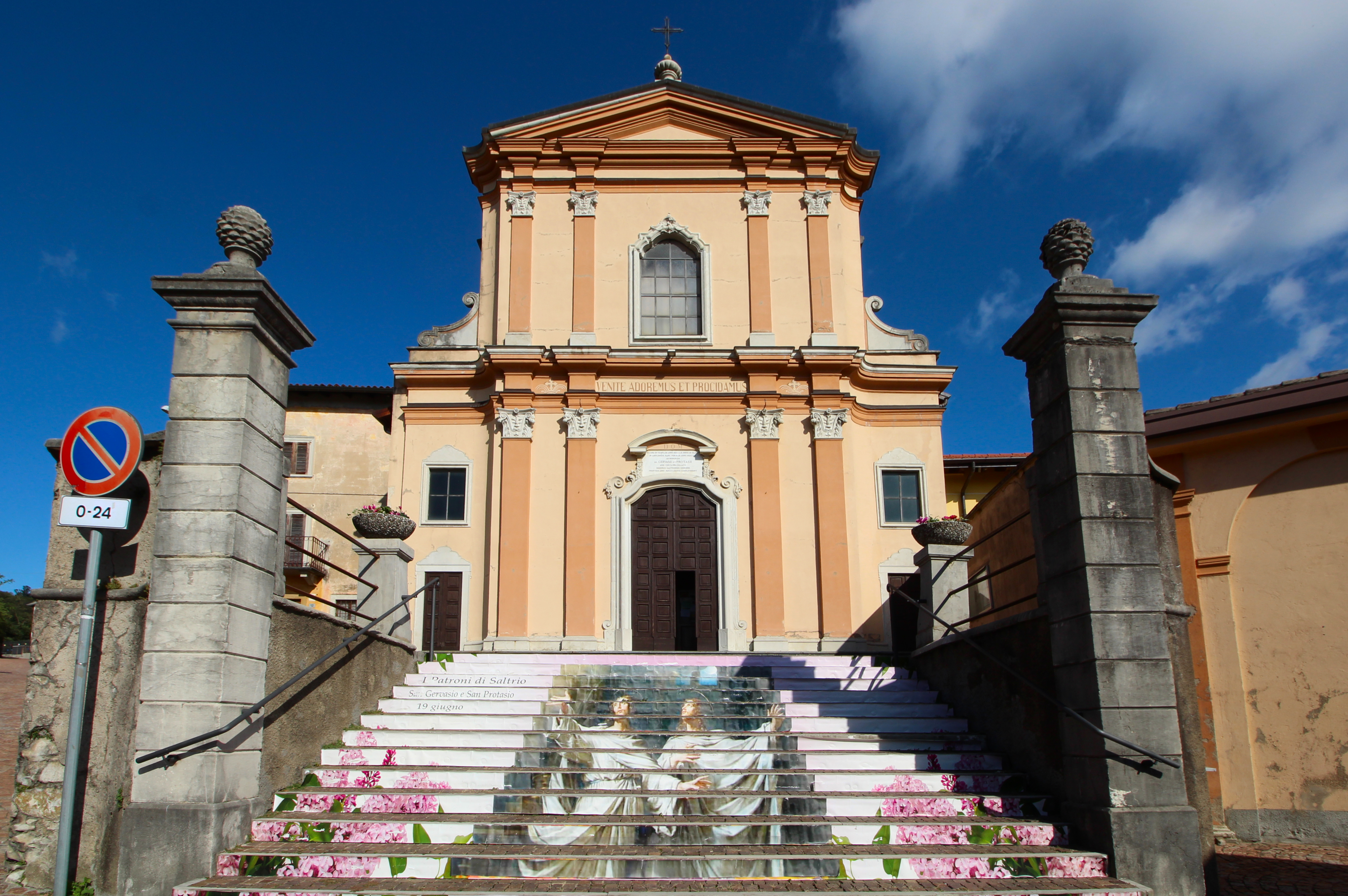 Church Santi Gervaso e Protaso, Saltrio, Province of Varese, Lombardy, Italy